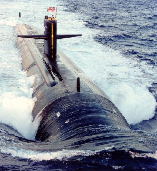 The USS Los Angeles (SNN 688)